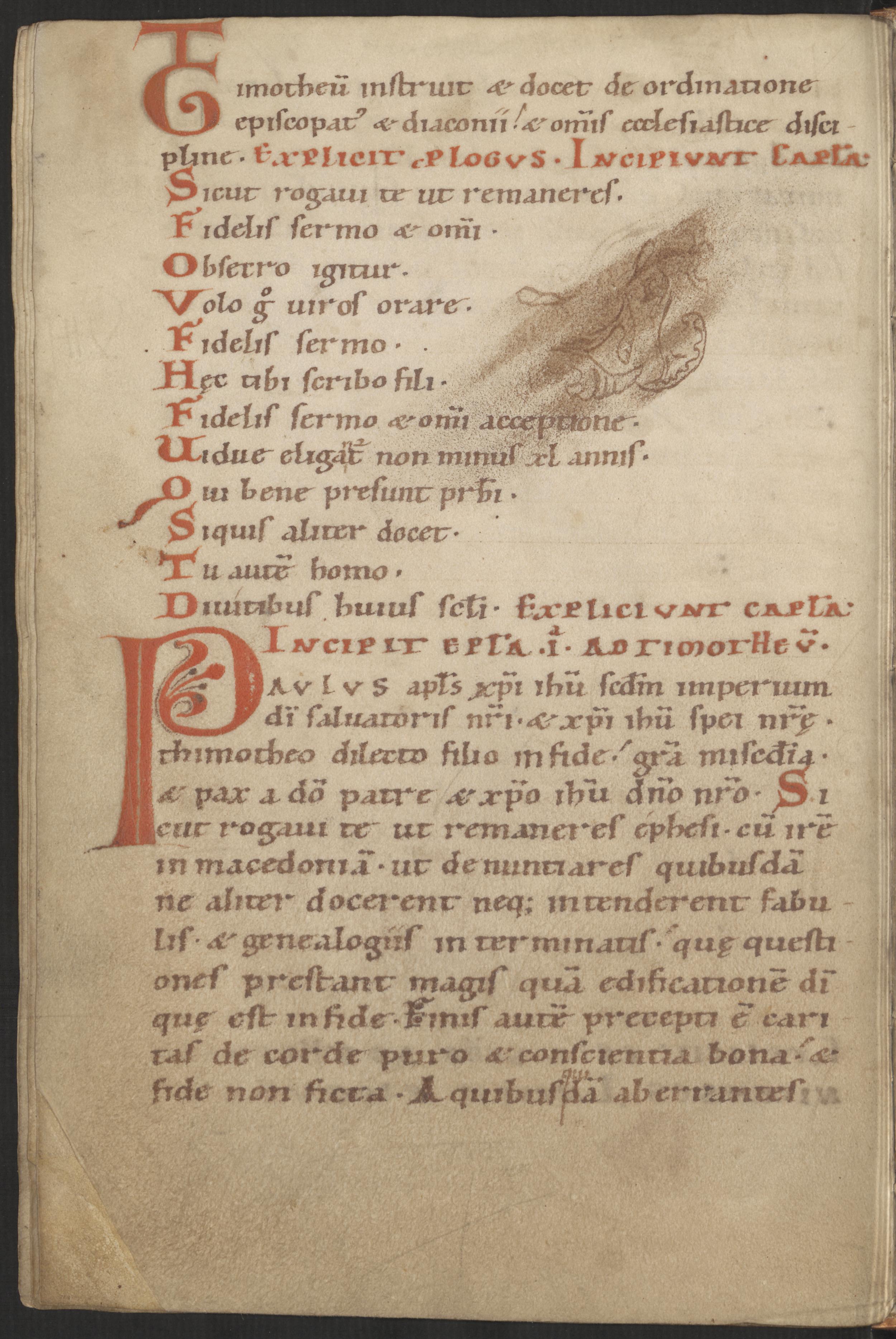 Ms.34, fol. 73v.